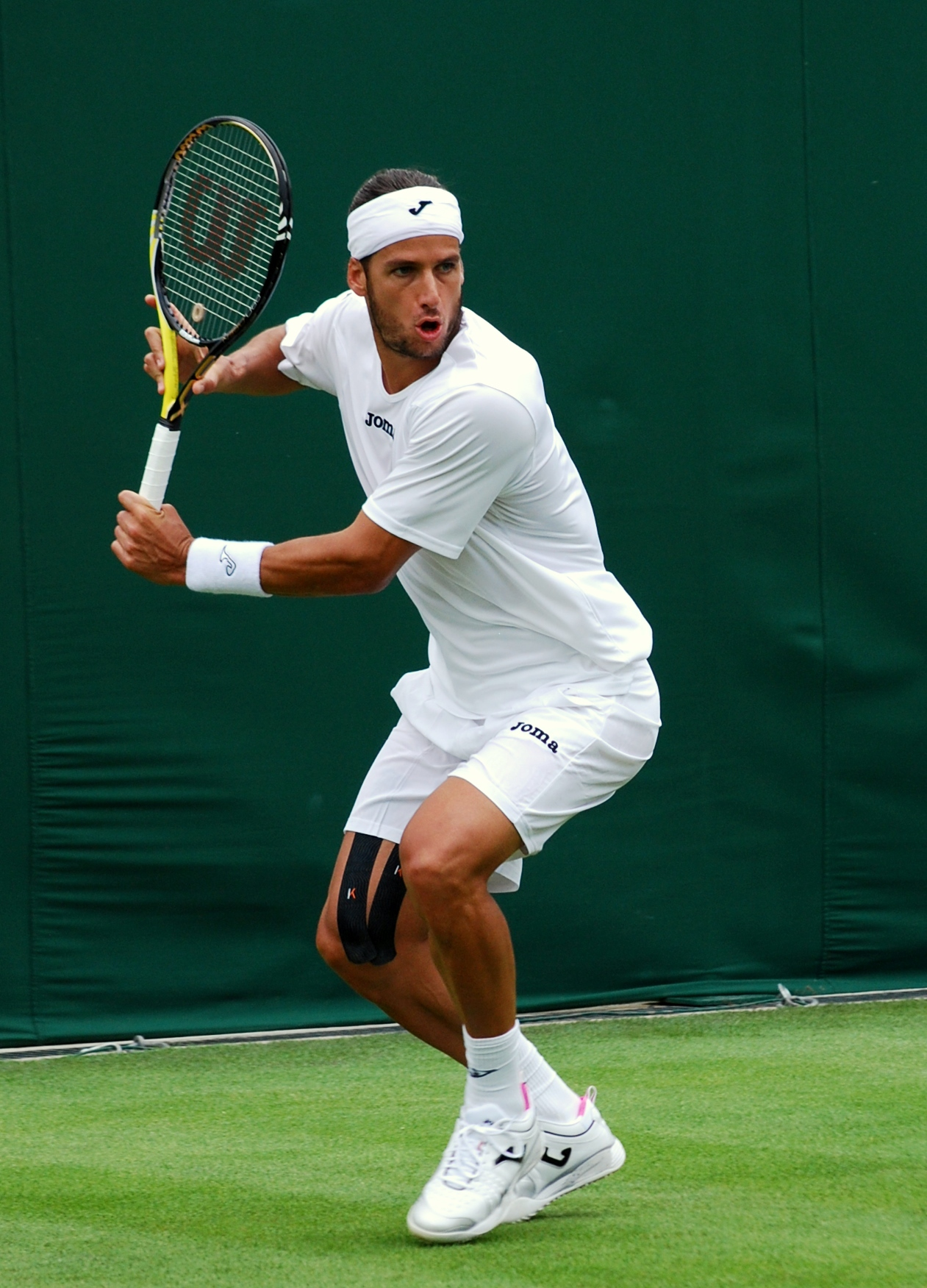 Feliciano Lopez during his first round match with Michael Berrer. Lopez won 6-4, 7-5, 6-3. Day 1 of Wimbledon 2011.